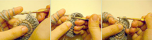 3 steps to make round crochet works